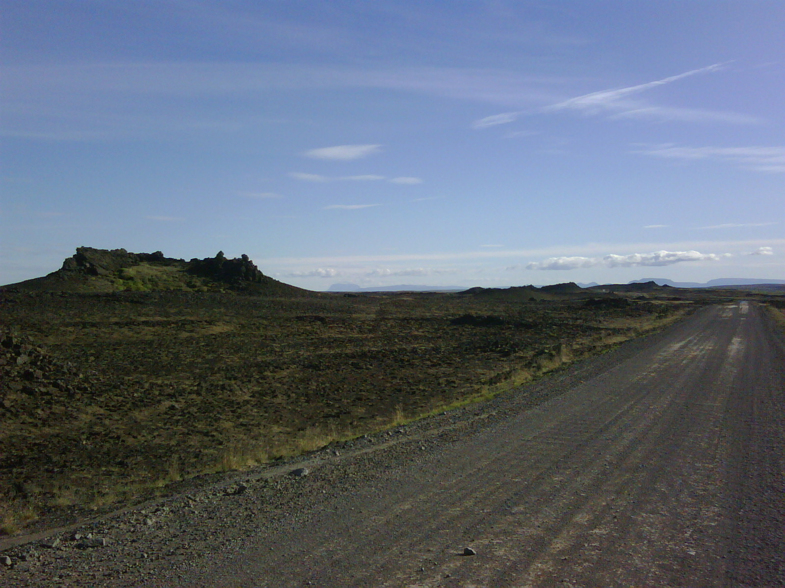 Road 864